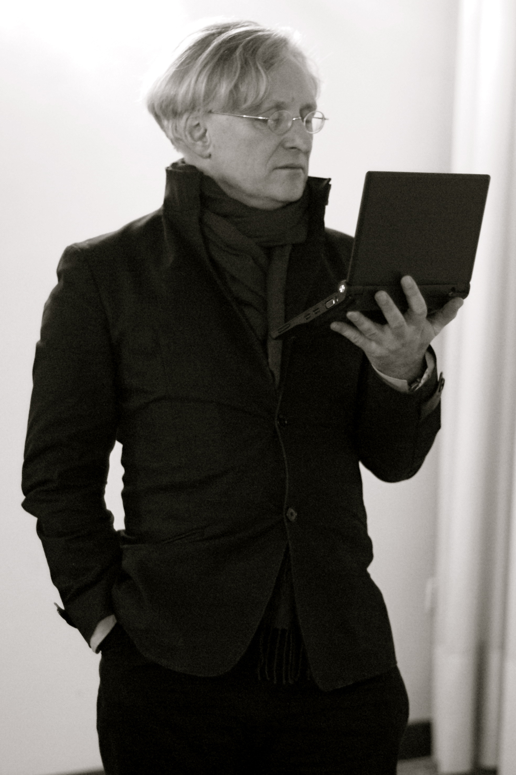 Steven Pemberton at W3C XHTML 2 WG f2f in Venice